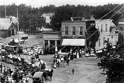 Source: NU150 - Photo Gallery - Evanston scenes, dated July 4, 1876.